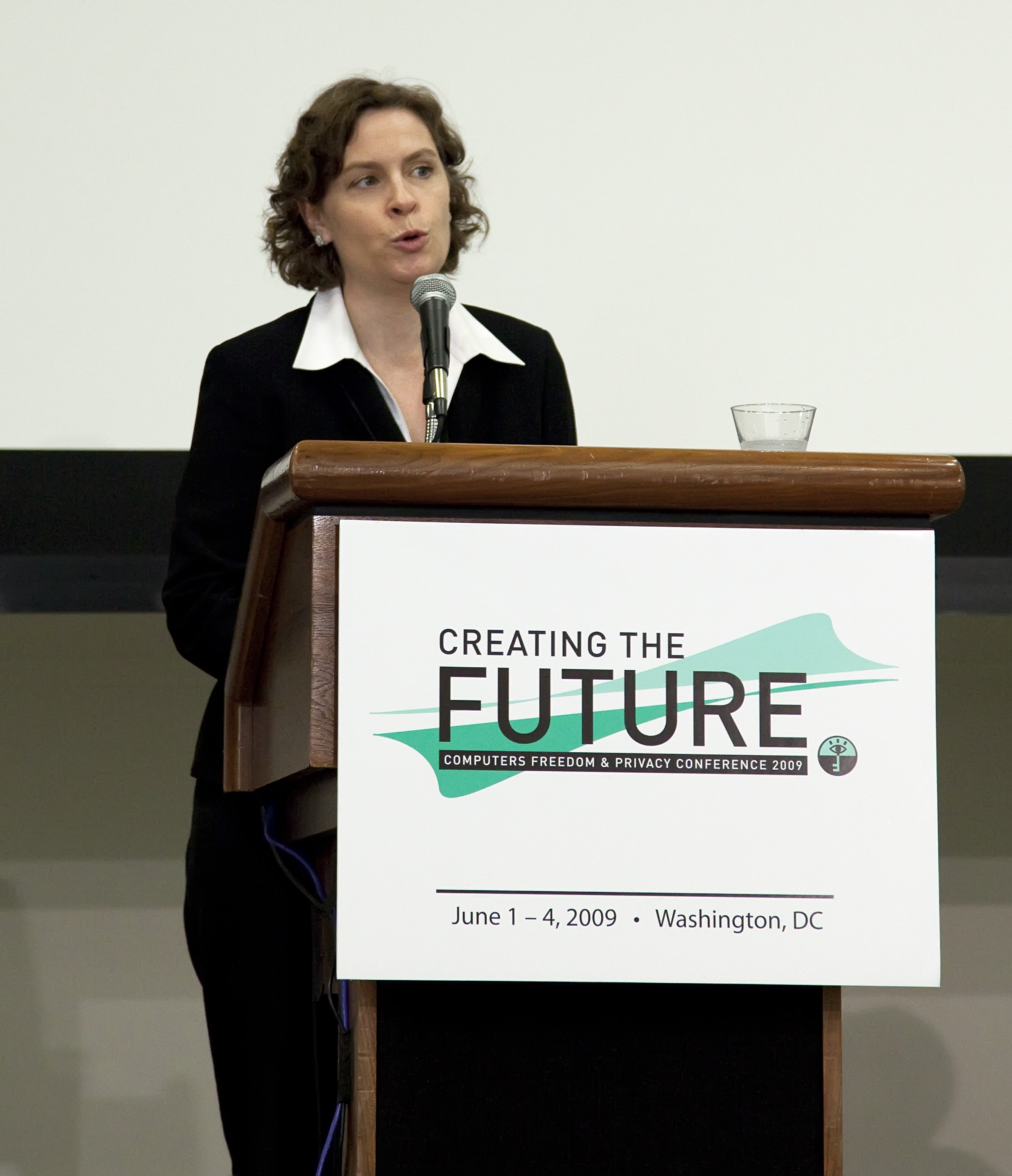 Washington - CFP09-2068 - Susan Crawford